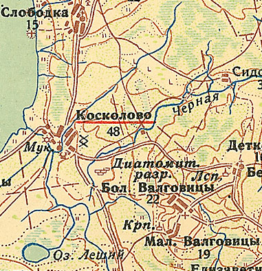 Koskolovo in 1933